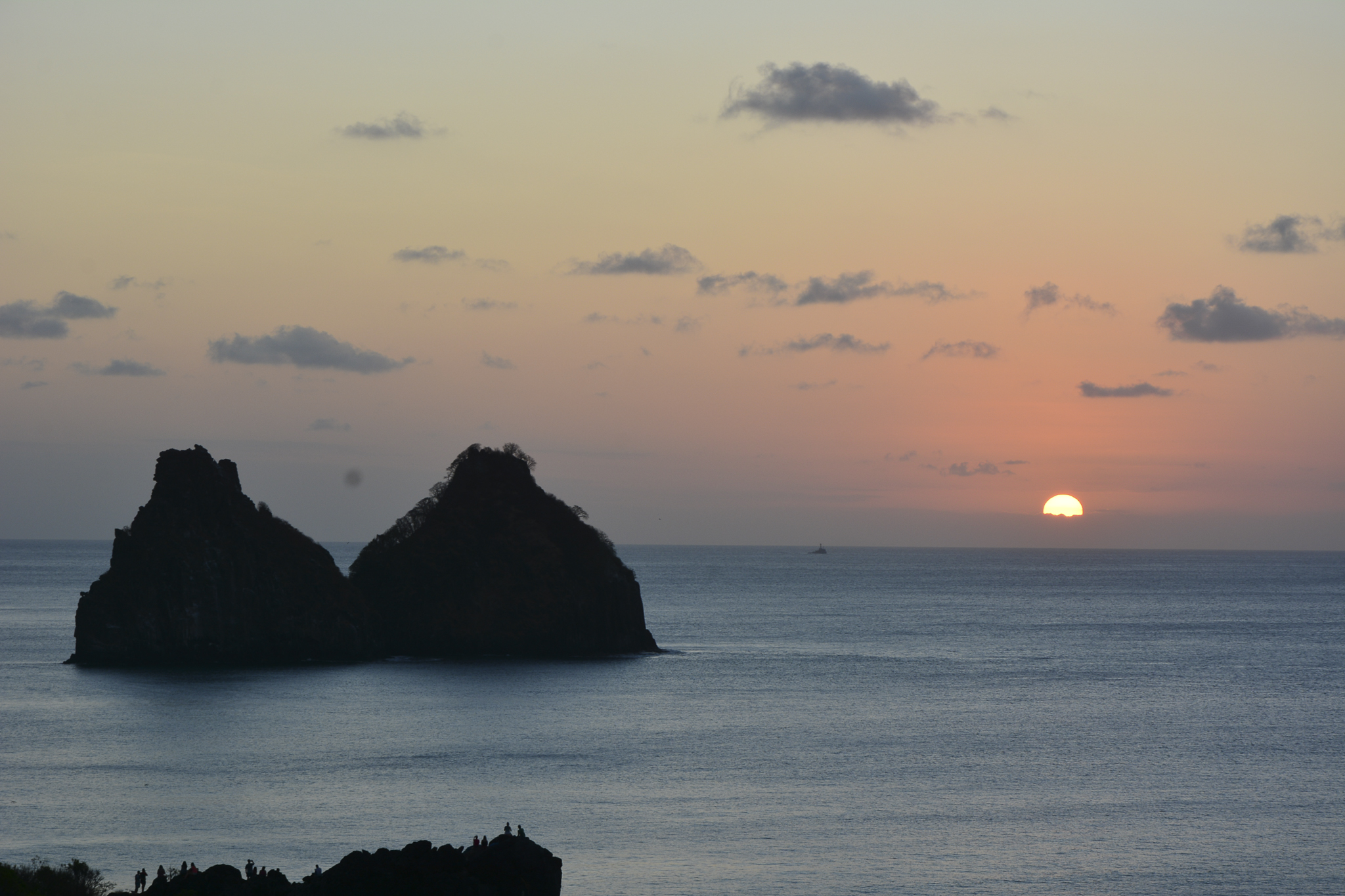 Two Brothers Rock - Fernando de Noronha Archipelago, Pernambuco, Brazil